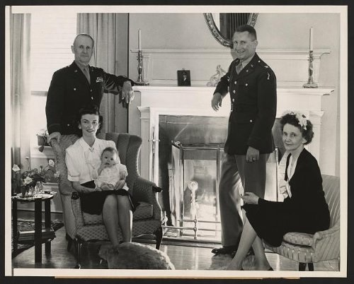 General Lesley McNair and family